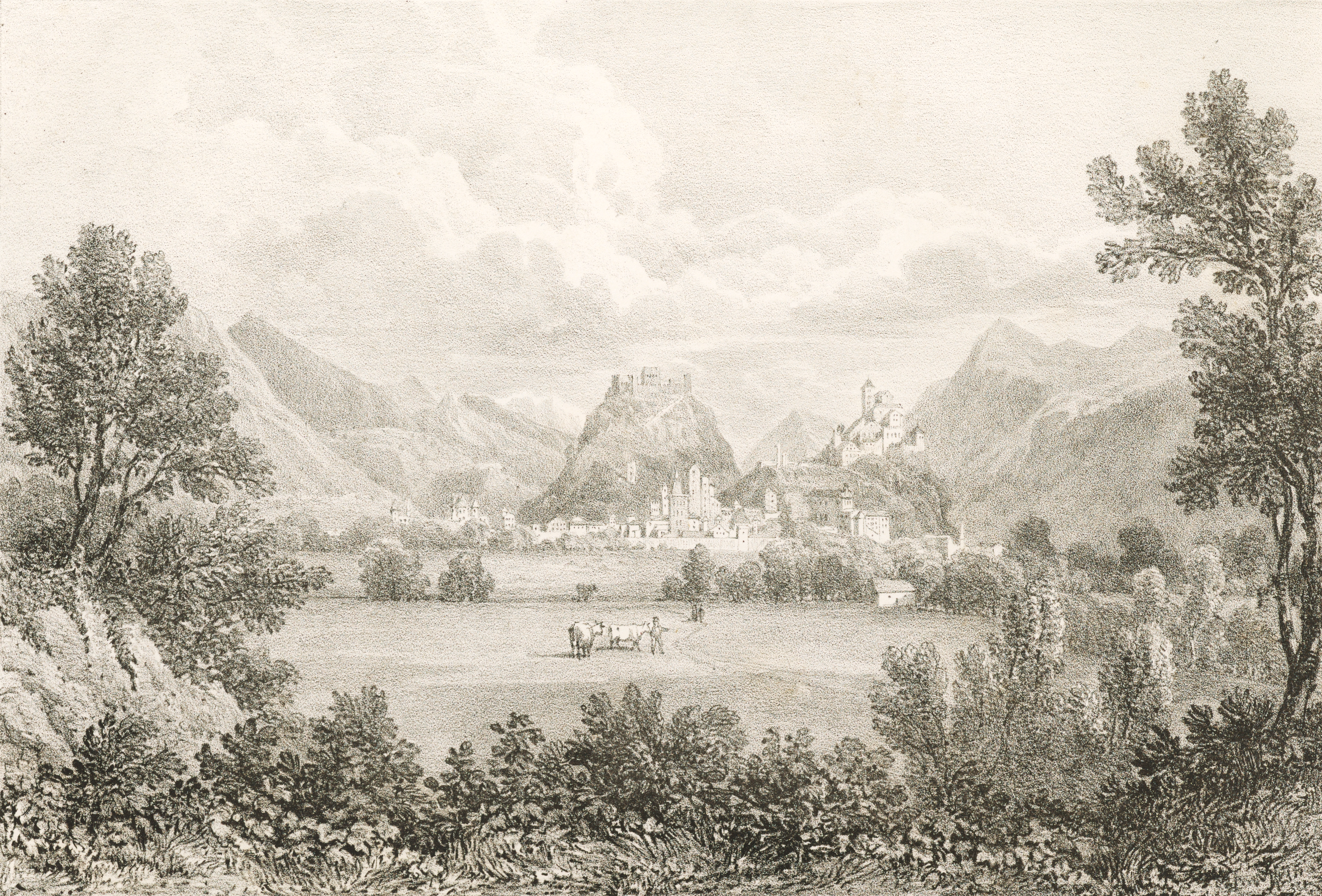 Sion, from the West; Views to illustrate the route of the Simplon; [recto en bas à gauche]: Drawn from Nature by Major Cockburn: [en bas à droite]: On Stone by I.D. Harding. [en bas au milieu]: Sion, from the West. / London. Published by Rodwell & Martin New Bond St. Dec. 1. 1820. / Printed by C. Hullmandel.[recto en bas à droite au crayon]: 9[recto en bas à droite timbre à sec]: B; Sion, vue d'ensemble de l'ouest. Château de Tourbillon; Château de Valère